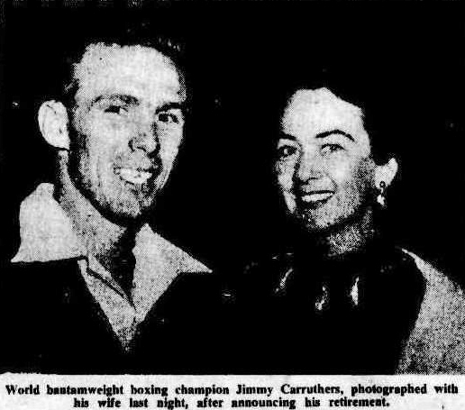 Jimmy Carruthers and his wife